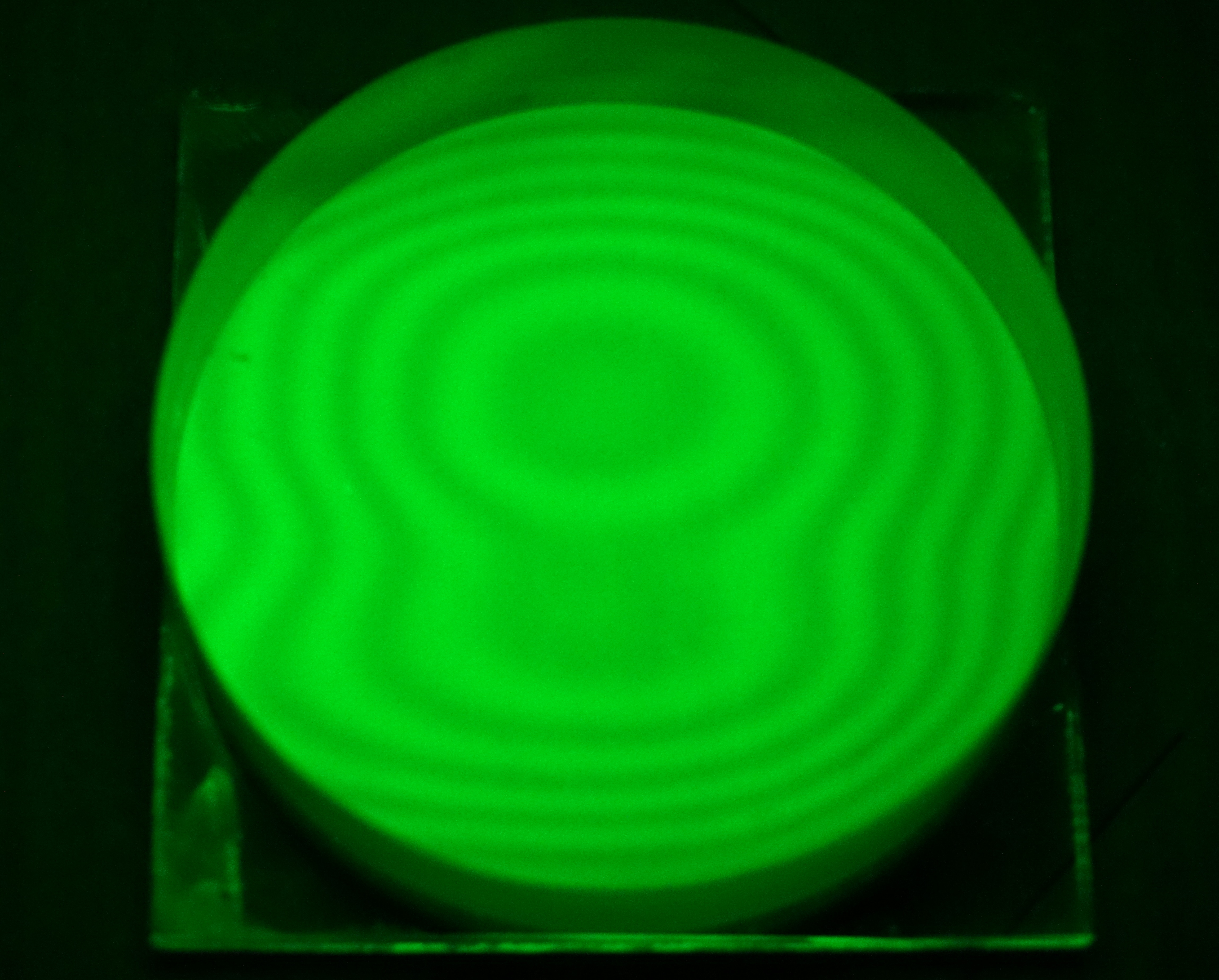 An optical flat test performed on an optical window. The flat is fused silica measuring 2 inches (5.1 cm) x 1/2 inch (13 mm) thick, with a flatness of λ/10. The optical window it is resting on is 2 inches square x 1/8 inch (3 mm) thick, made of borosilicate float-glass and coated with a multilayer antireflection coating. By drawing a straight line across the flat, along the edge of one fringe, and counting how many fringes cross that line, the surface of the window can be measured for flatness to within 1/10 of the wavelength of the 532 nm laser light that illuminates it. If a bright fringe is used as a reference, then a difference of one dark fringe crossing that line equals a deviation on the surface of λ/2 (1/2 of the wavelength, or in this case 266 nm). A bright fringe crossing that line equals a deviation of λ (one wavelength). The test shows the window is flat to 4--6λ (~2000--3000 nm) per inch. The AR coating makes a white-light test nearly impossible, but simply changing the viewing angle reveals that the surface is slightly concave, even though it looks convex